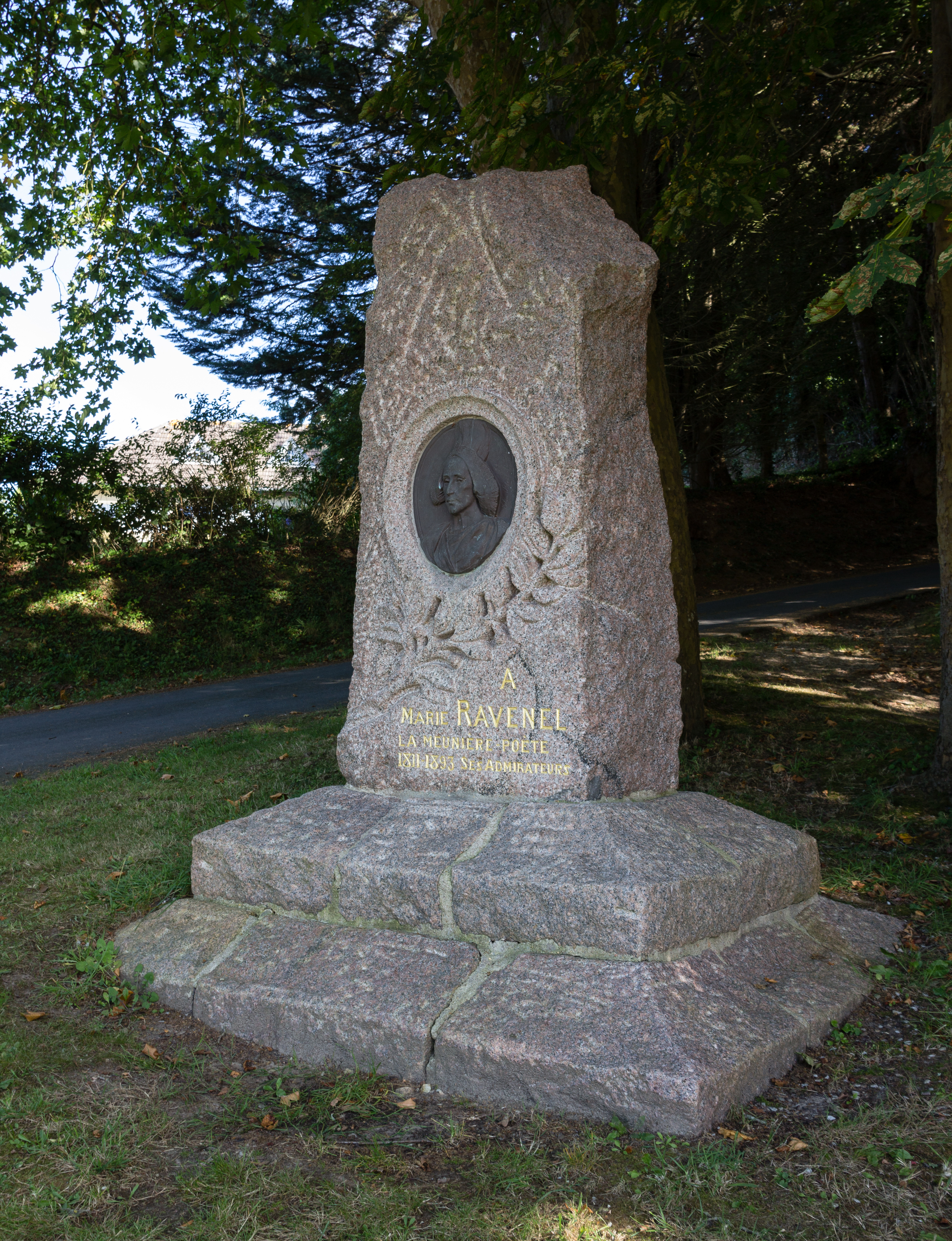 Stele to the french miller and poetress Marie Ravenel in Fermanville (France)